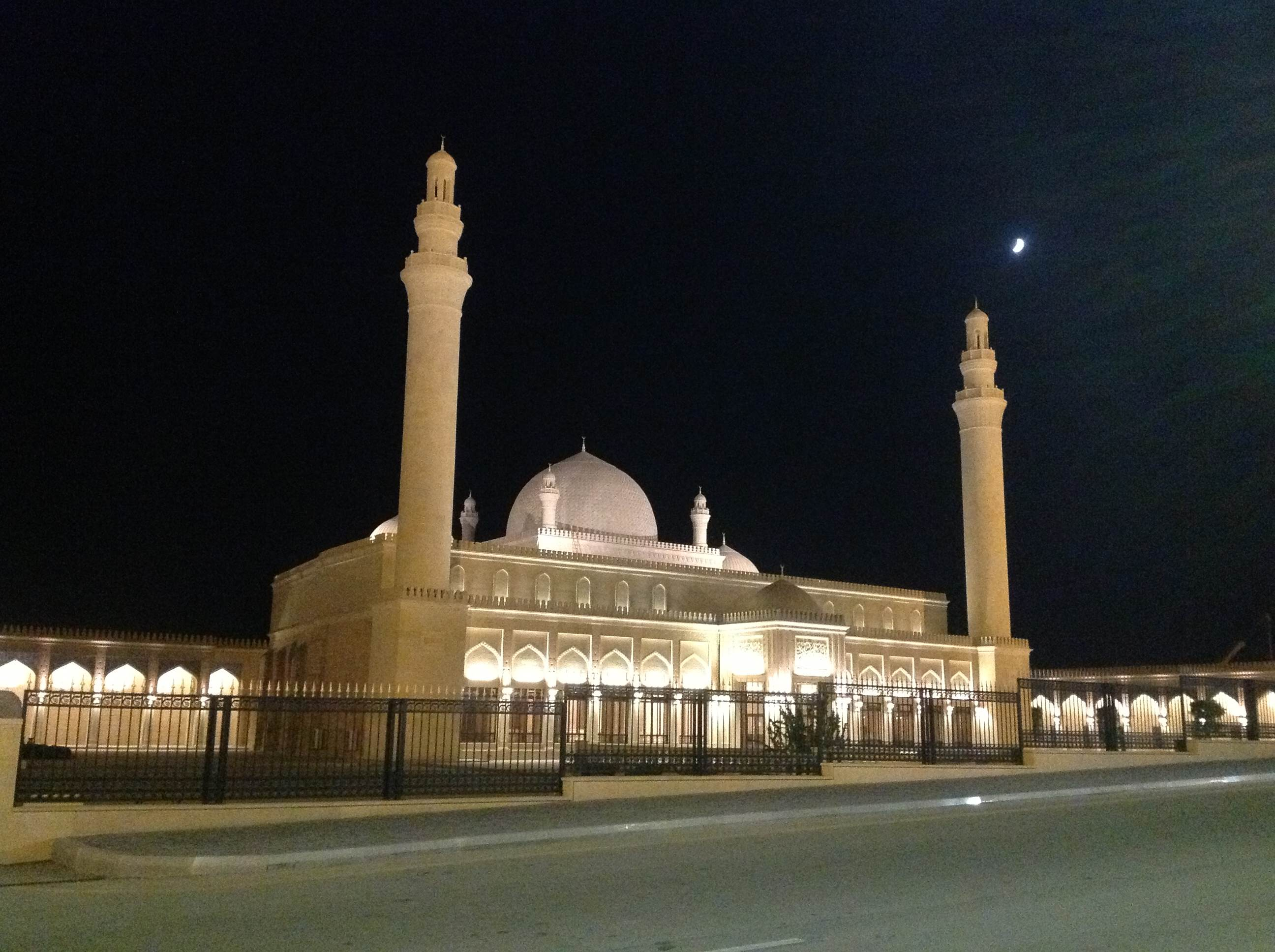 This is the most ancient mosque in the territory of the Republic of Azerbaijan (the second in the Caucases after Juma Mosque of Darbend) that was built in 734-743 A.M. (117-126 A.H.)